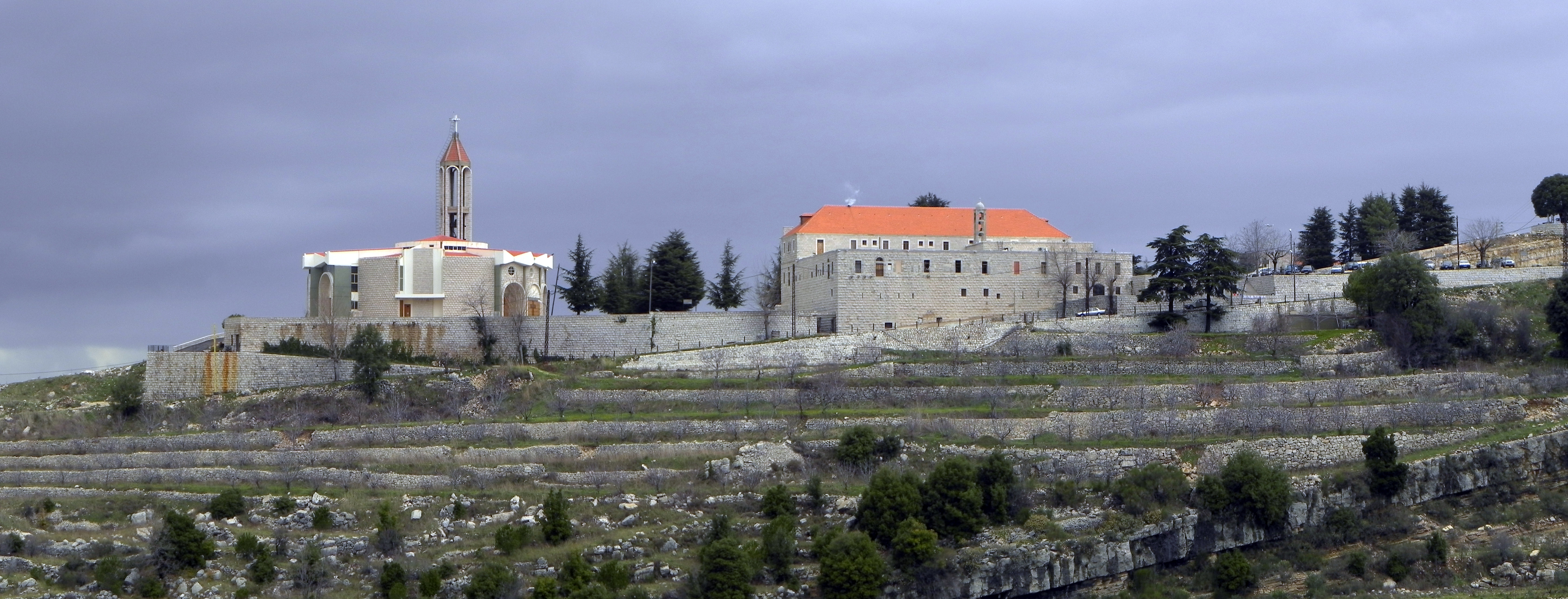 Panoramic Photo of The Church and Monastry of Saint Charbel Annaya - Lebanon taken in winter.